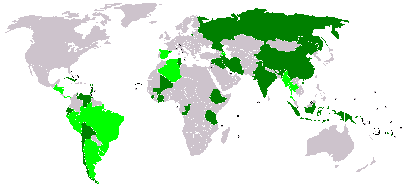 Current members of the UN Special Committee on Decolonization